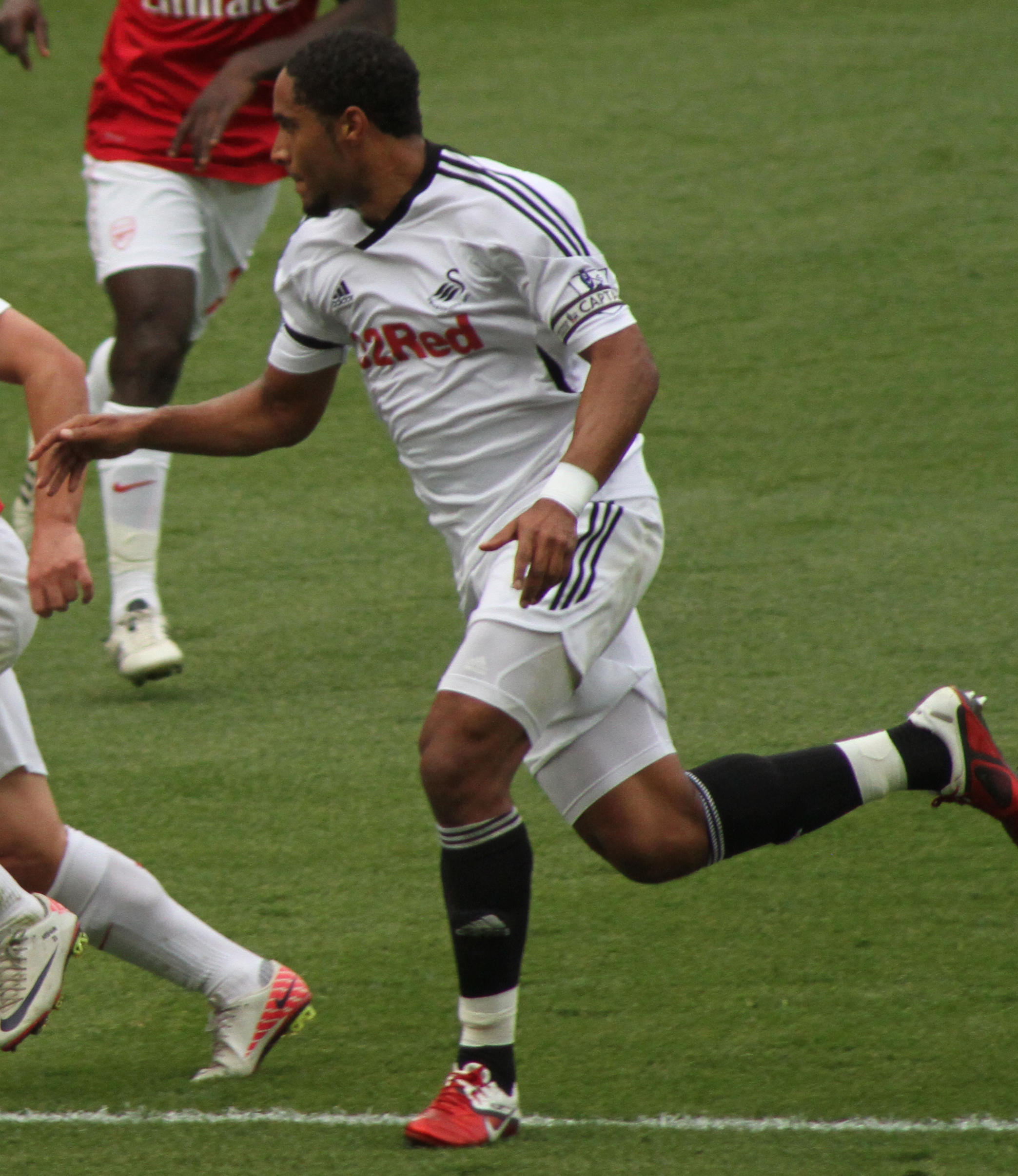 Andrei Arshavin of Arsenal defended by Neil Taylor (left) and Ashley Williams. Emmanuel Frimpong in the background.